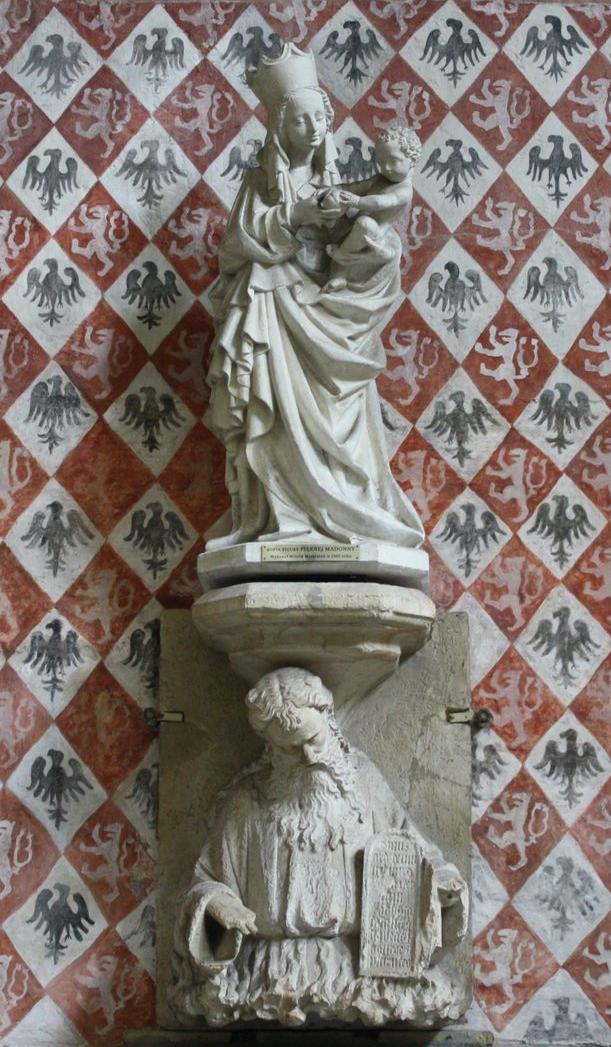 Toruń, St. Johns Church, Beautiful Madonna (copy)